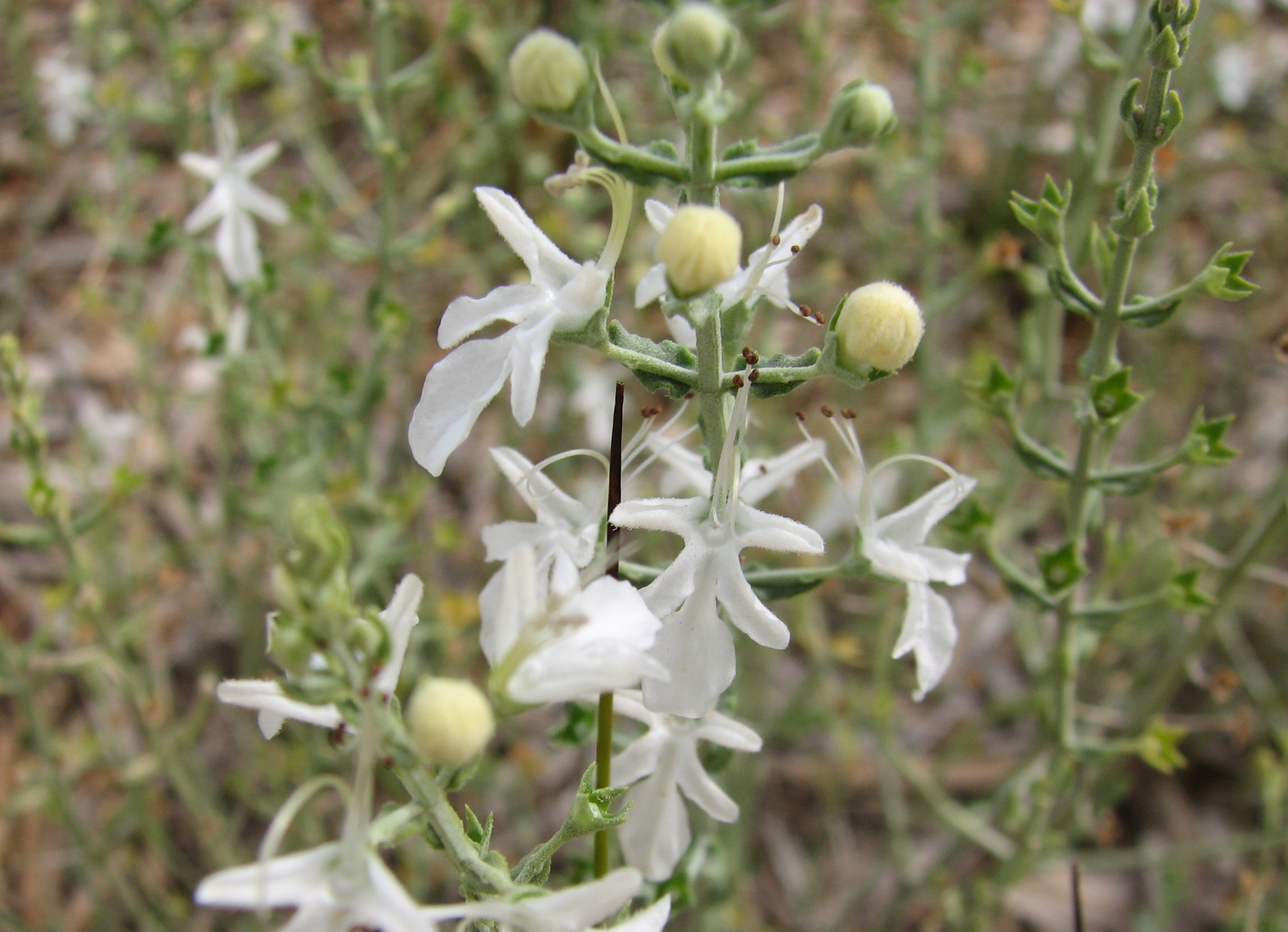 Teucrium racemosum, (cultivated, labelled) Royal Botanic Gardens, Cranbourne, Victoria Australia